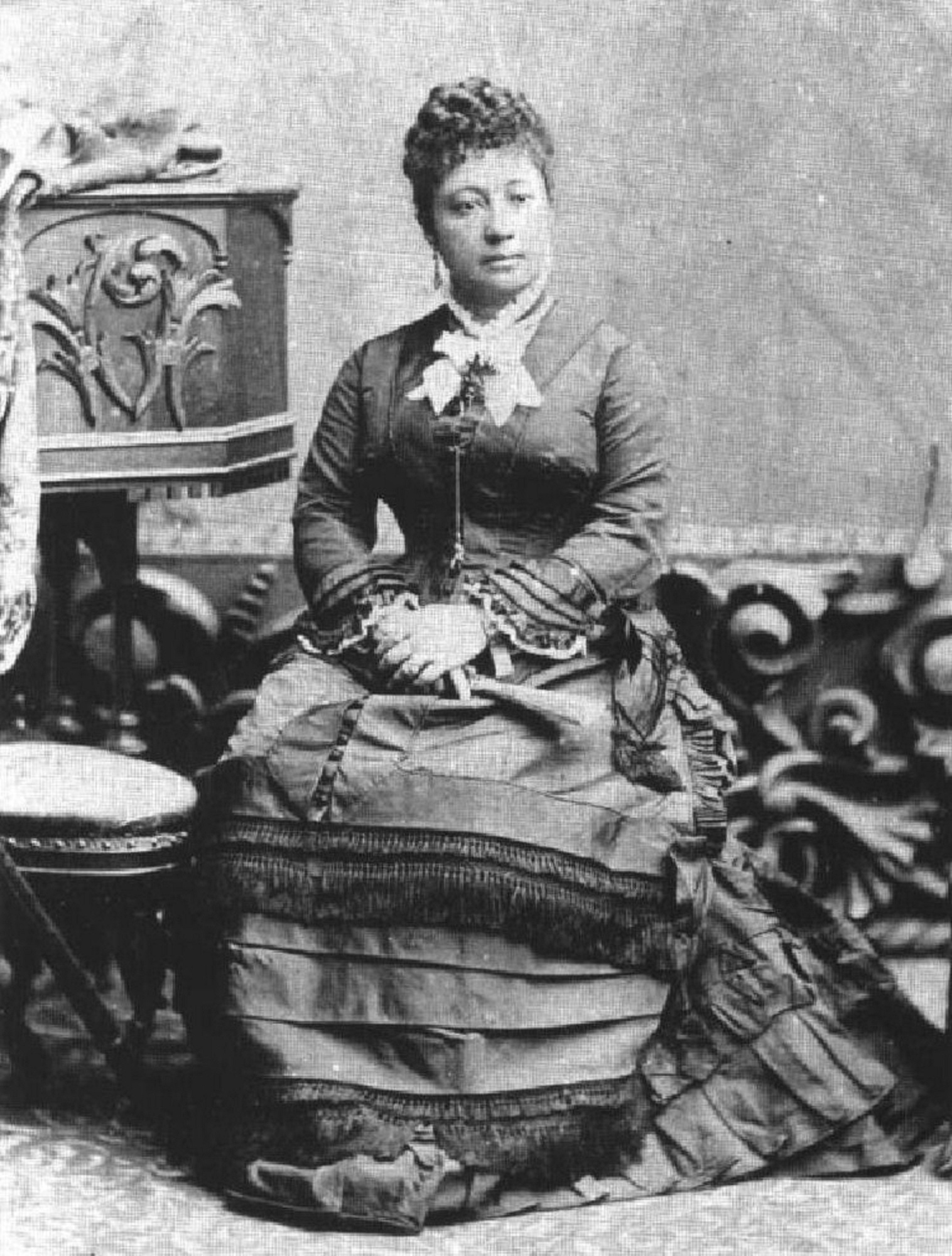 Bernice Pauahi Bishop in San Francisco in 1875.